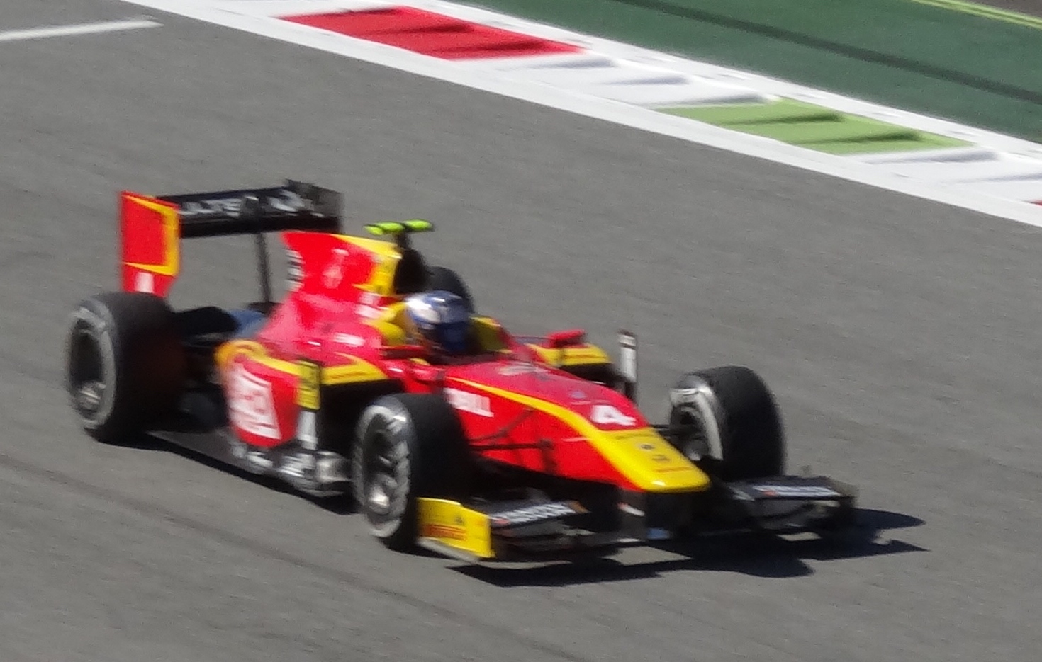 Gustav Malja Monza F2 2017